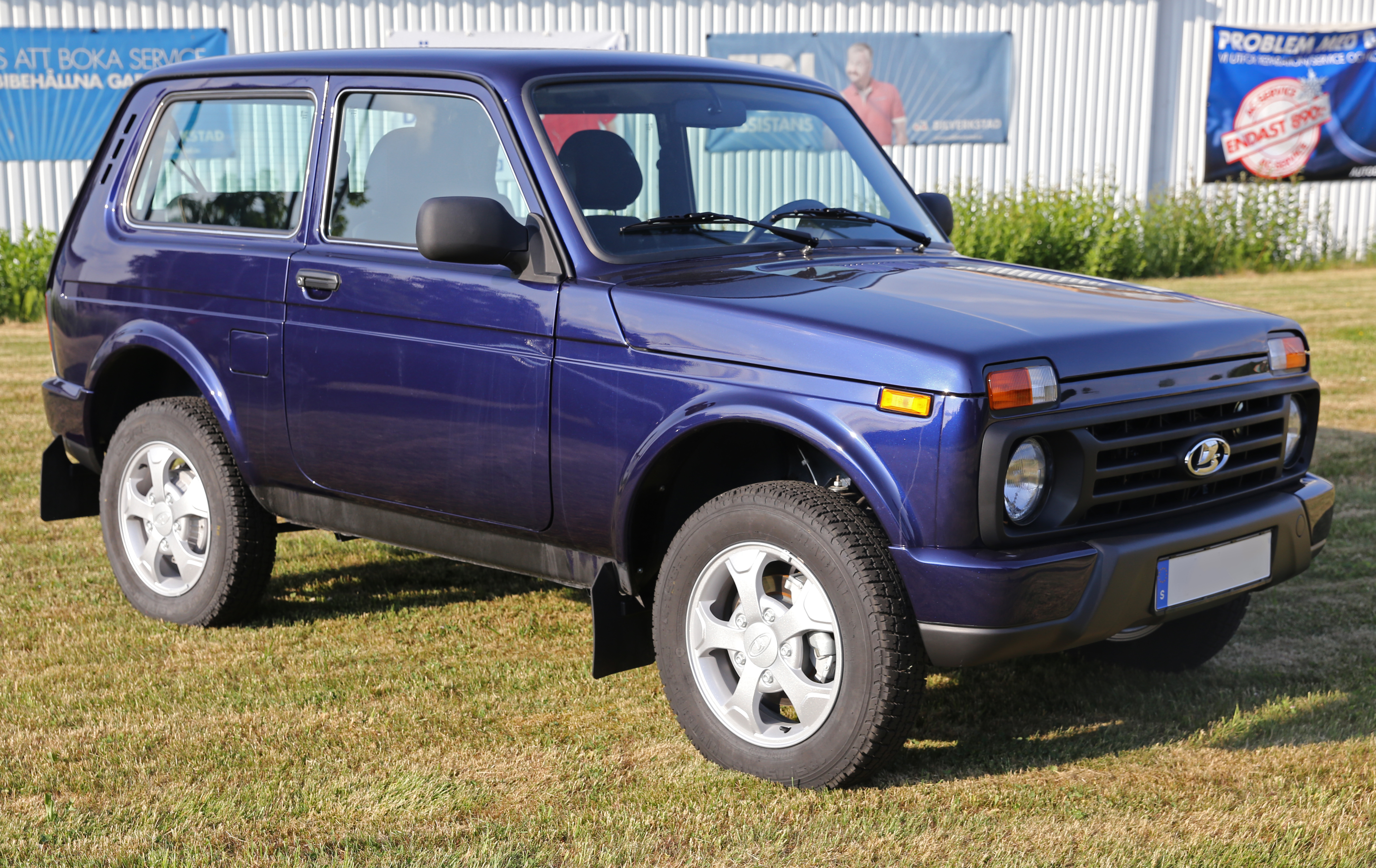 A 2016 Lada Niva Urban in Sweden. Apparently one can still buy a new Lada in Sweden, although I have never seen one in traffic. Not surprising, as only three new Ladas of all types were registered in 2016, an average of a half car per dealer. 36 were sold in 2015. This car is leased by the dealer themselves, not sure if that counts as a sale...